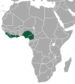 Fraser's Musk Shrew (Crocidura poensis) range